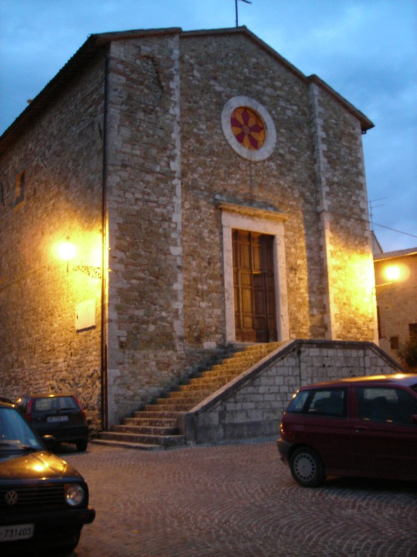 church of St andrew, Marcellano, Gualdo Cattaneo, Perugia, Umbria, Italia